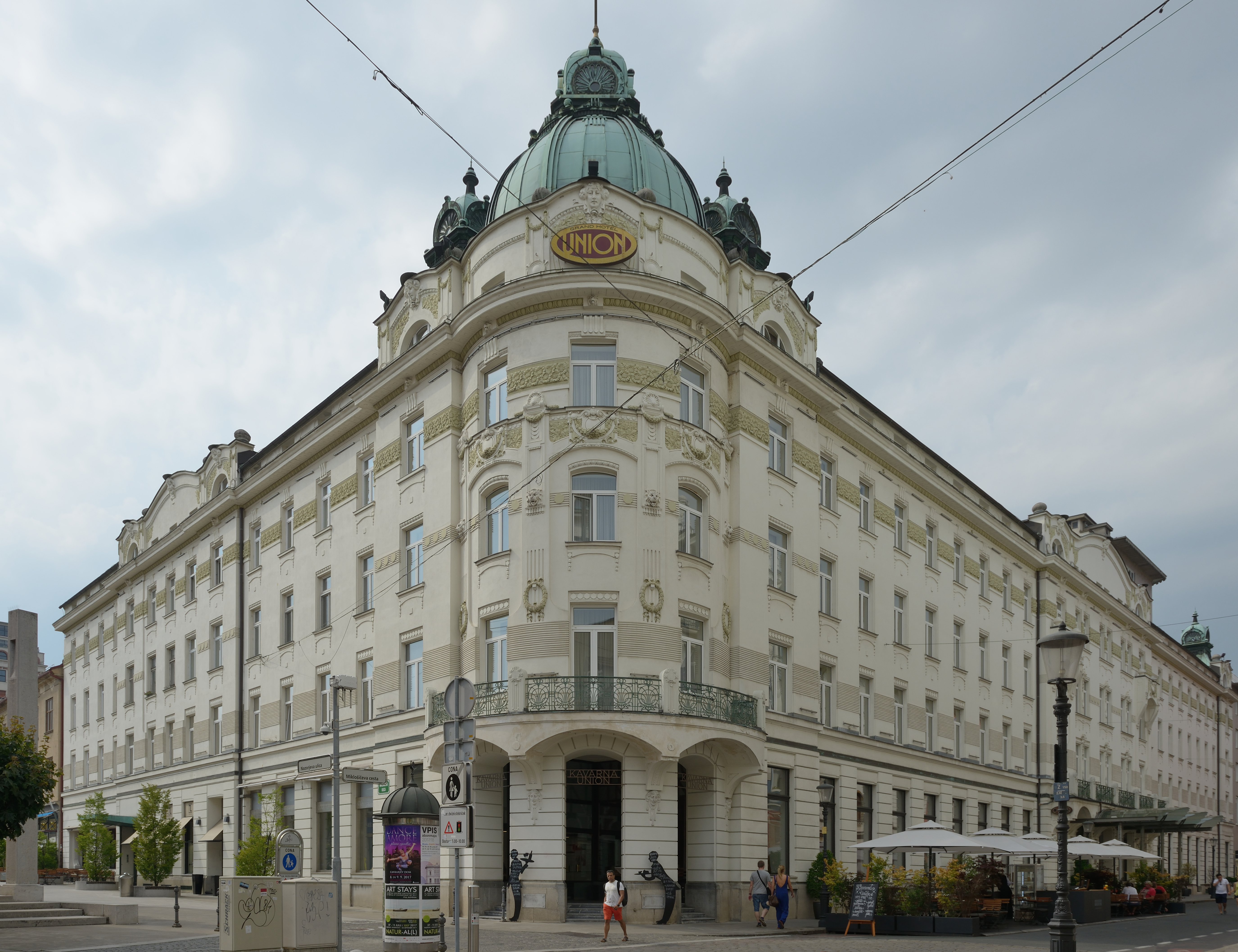 Grand Hotel Union on Miklosiceva street in Ljubljana. Architect Josip Vancaš.